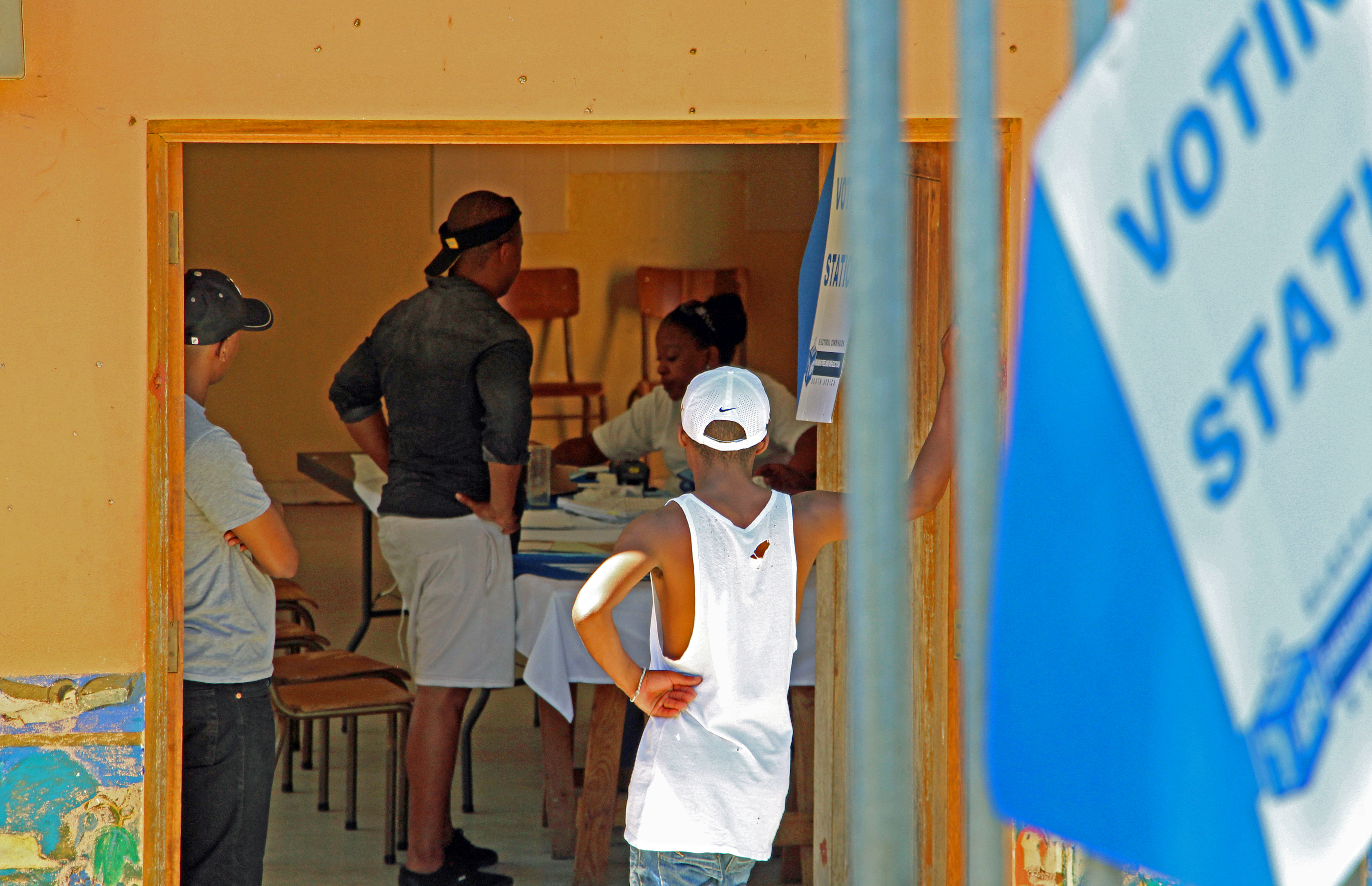 South African youths registering to vote, St Johns Anglican Church, Kayamandi, Western Cape. A total of 2.3 million new voters registered during the first voter registration weekend held in November 2013 and the second and final voter registration weekend held in February 2014, increasing the number of registered voters to over 25 million. The South African general election to be held on 7 May 2014 after 20 years of democracy will be the first general election in which the "born-free" generation will be eligible to vote.